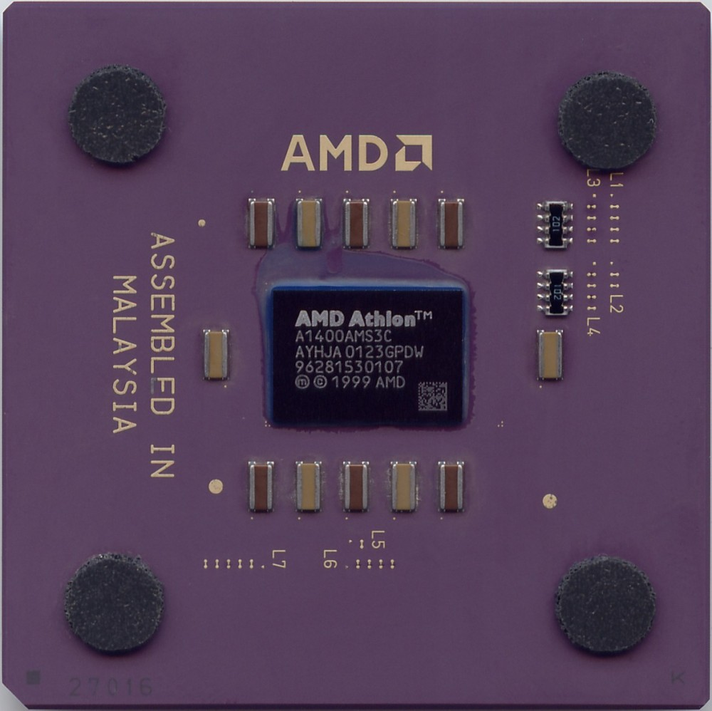 IC photo